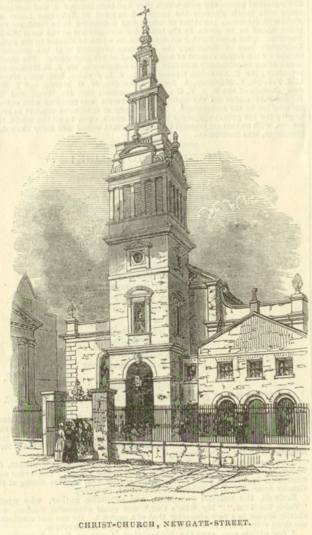 Image taken from March 22, 1845 issue of The Illustrated London News. Copyright expired.